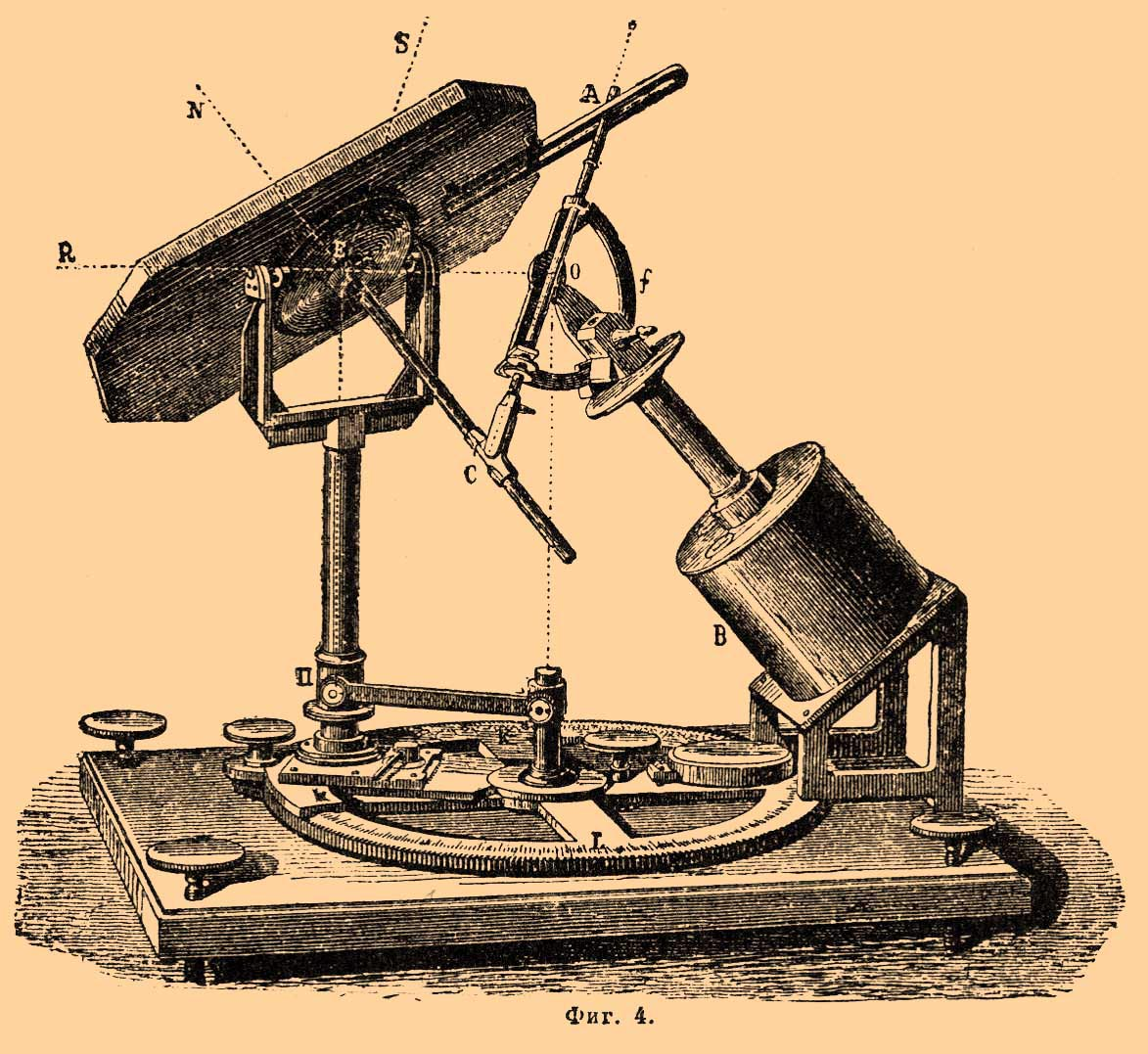 Illustration from Brockhaus and Efron Encyclopedic Dictionary (1890—1907)